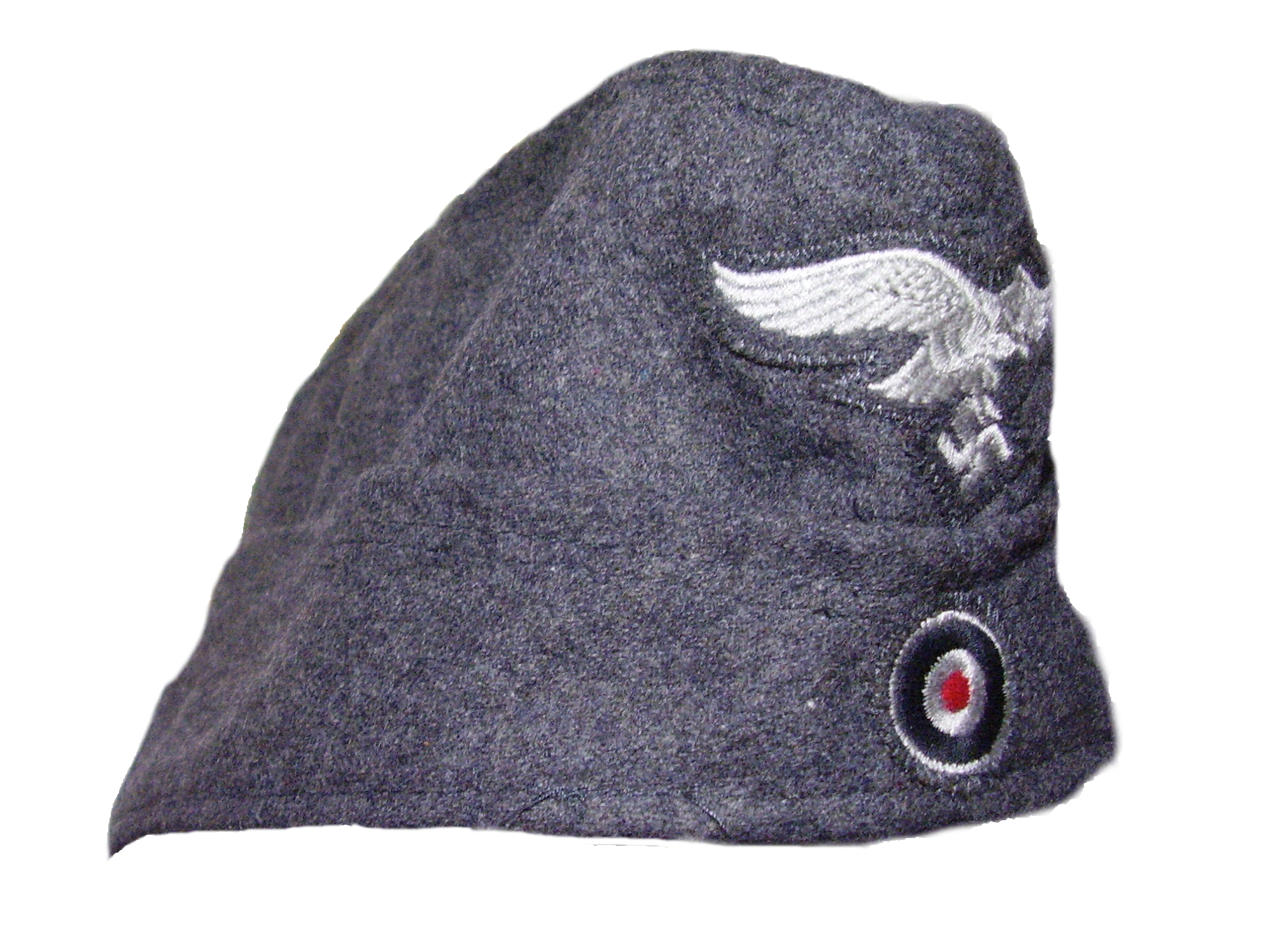 Garrison cap "Fliegermütze" of Luftwaffe (replica faithful to the original)